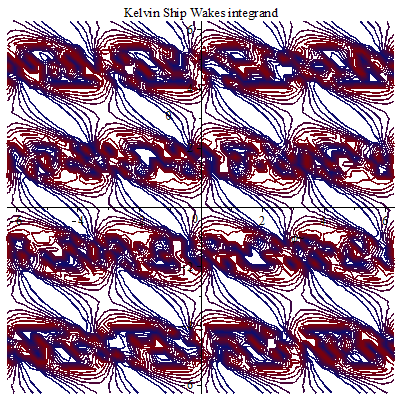 Kelvin Ship Wake Integrand contour Maple plot